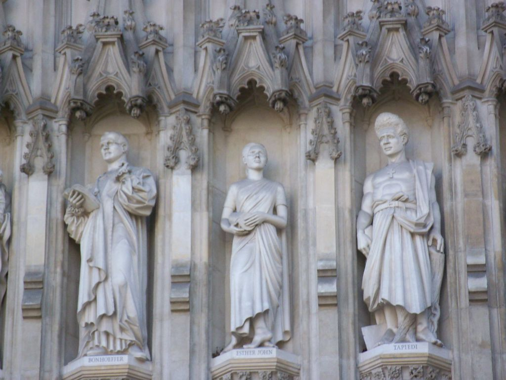 There are three Christian Martyrs' Statues in this Picture. Bonhoeffer (left), Esther John (center) and Tapiedi (right) as depicted on Wesminister's Abbey in London.